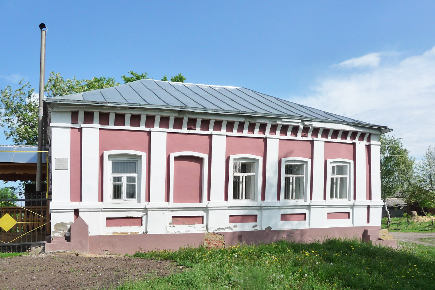 The building of a former parochial school (mid-nineteenth century). The town of Spassk, Penza oblast, Russia